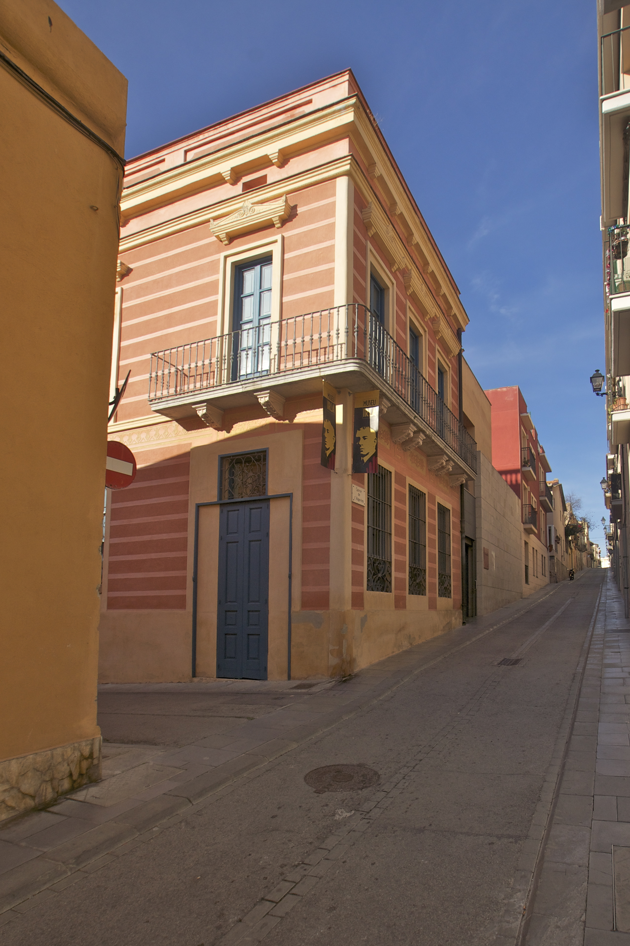 Sant Feliu de Guíxols, Catalonia: Museu Irla